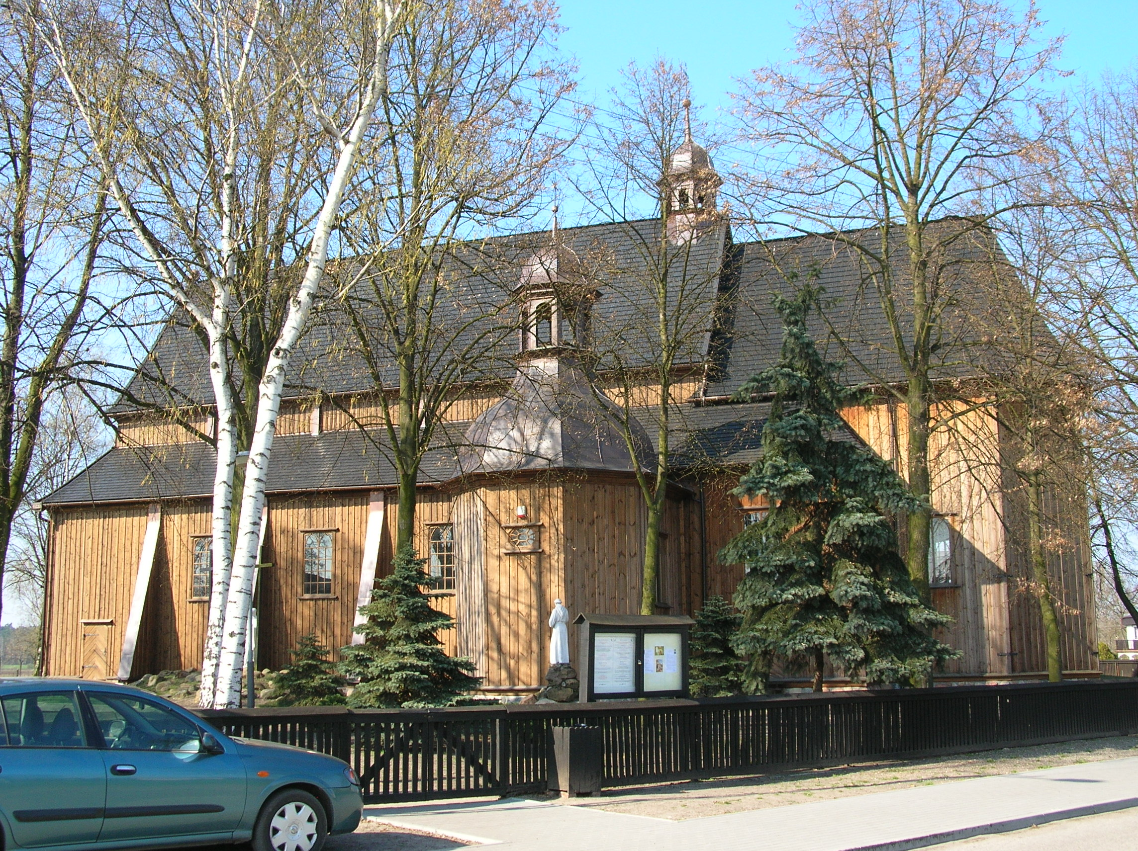 Wooden church in Pieranie